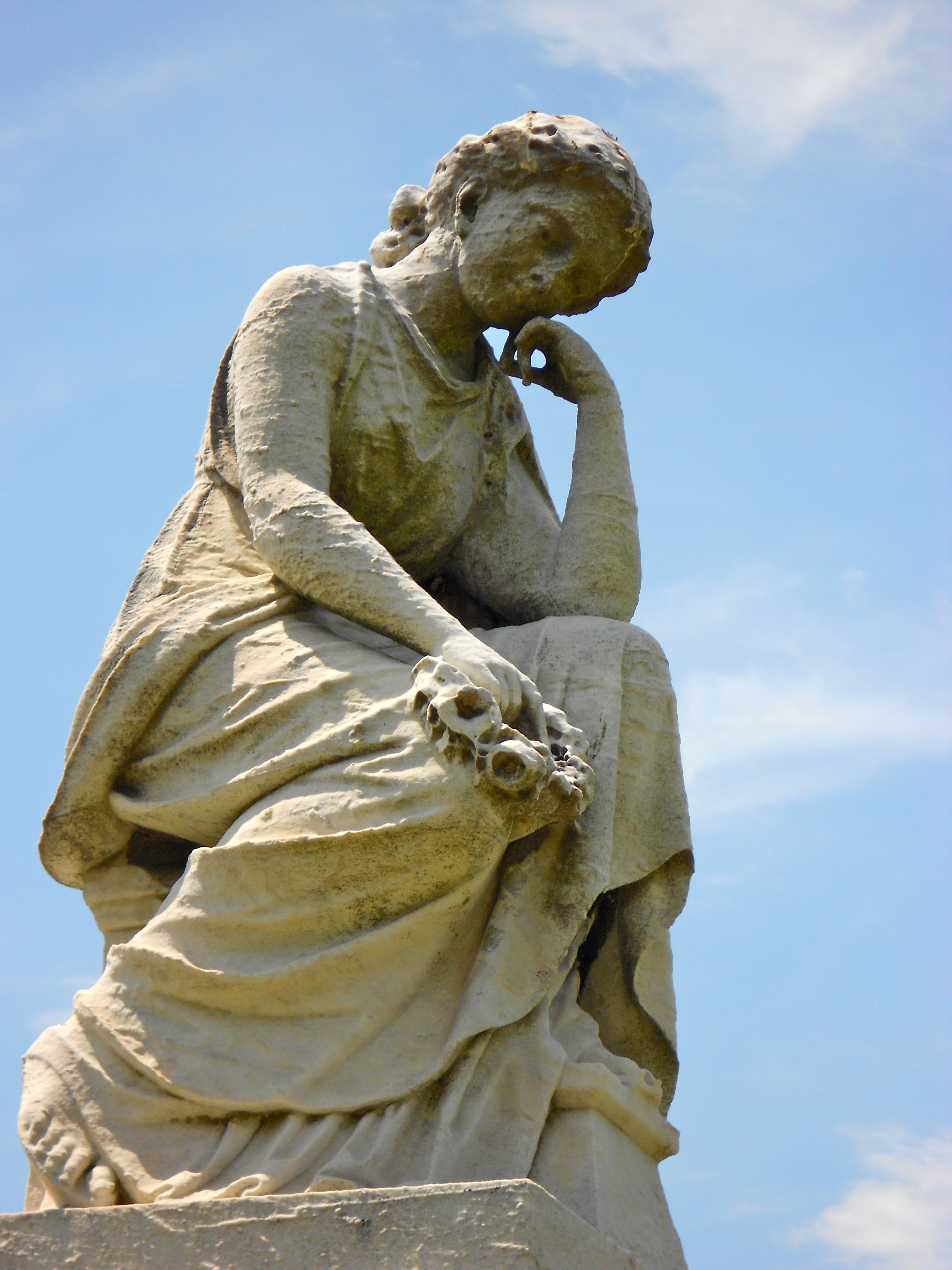 Grave of Mary Ann Hall, entrepreneur, at the Congressional Cemetery in Washington, DC.